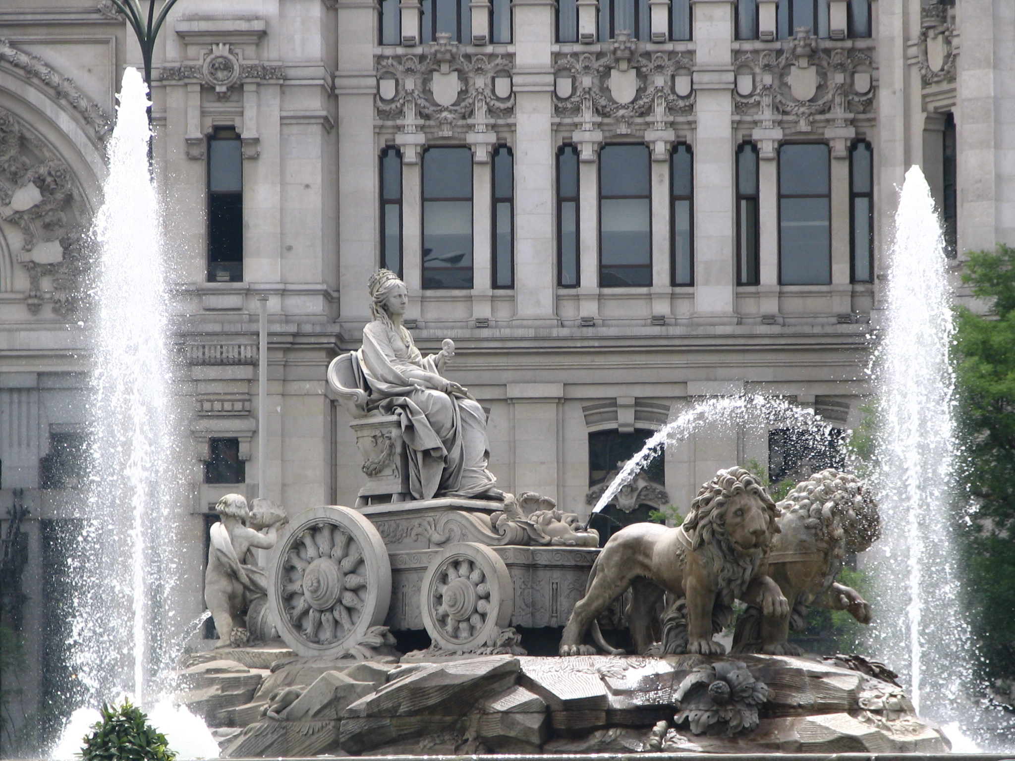 Fountain of Cybele, at Plaza de Cibeles (square) in Madrid (Spain). In the background, the Palacio de Comunicaciones (Madrid's city hall since 2007).